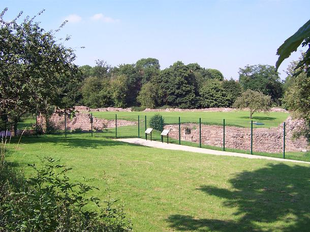 Weoley Castle ruins. The castle, which dates from the 13th-15th centuries, was a fortified manor house owned by, among others, the barons of Dudley. The ruins are in disrepair (!) and closed to the public. The closest you can get is the two information boards visible in the photo, and even that area is closed on weekdays. Information